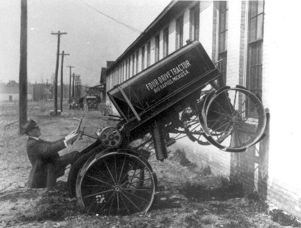 Wall climbing tractor at the Fitch four-drive company.